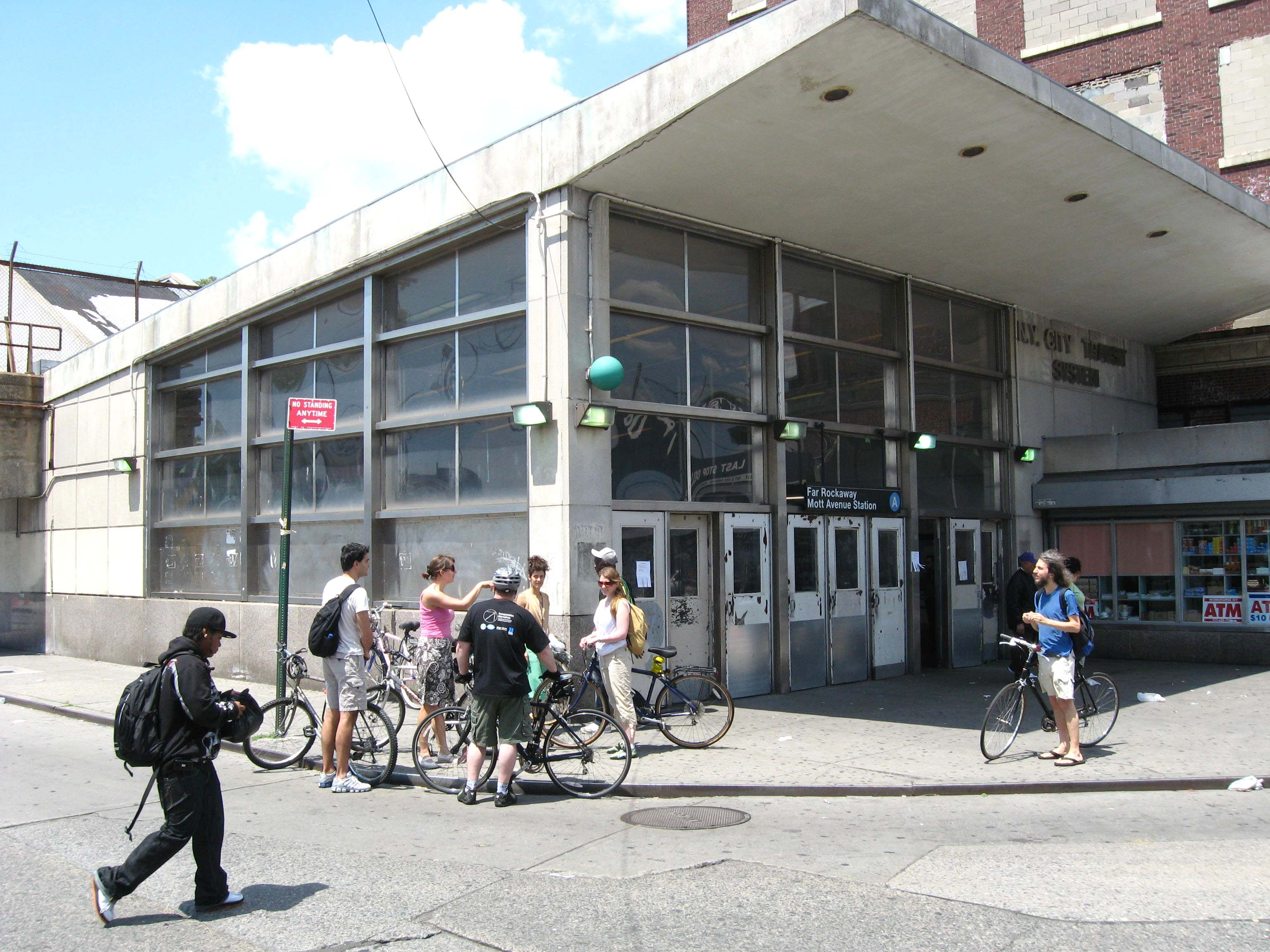 Looking west at Far Rockaway–Mott Avenue (IND Rockaway Line) on a sunny midday with Bettina Johae's bicycle touring group convening. See also File:NYCSub A Far Rockaway Mott Ave.jpg.